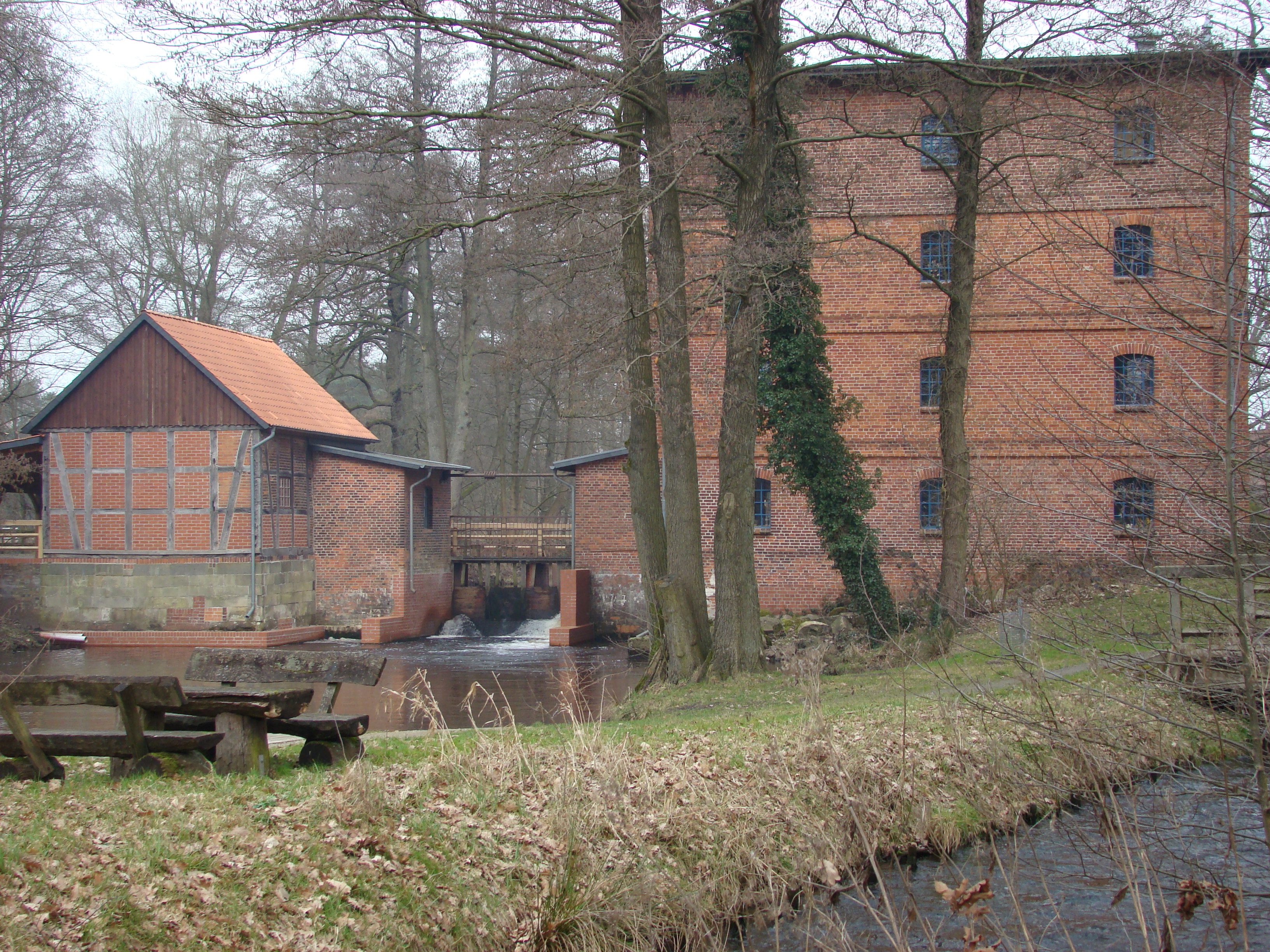 Former mill in Müden, Lower Saxony, Germany, with turbine house (left) and bypass channel (front)